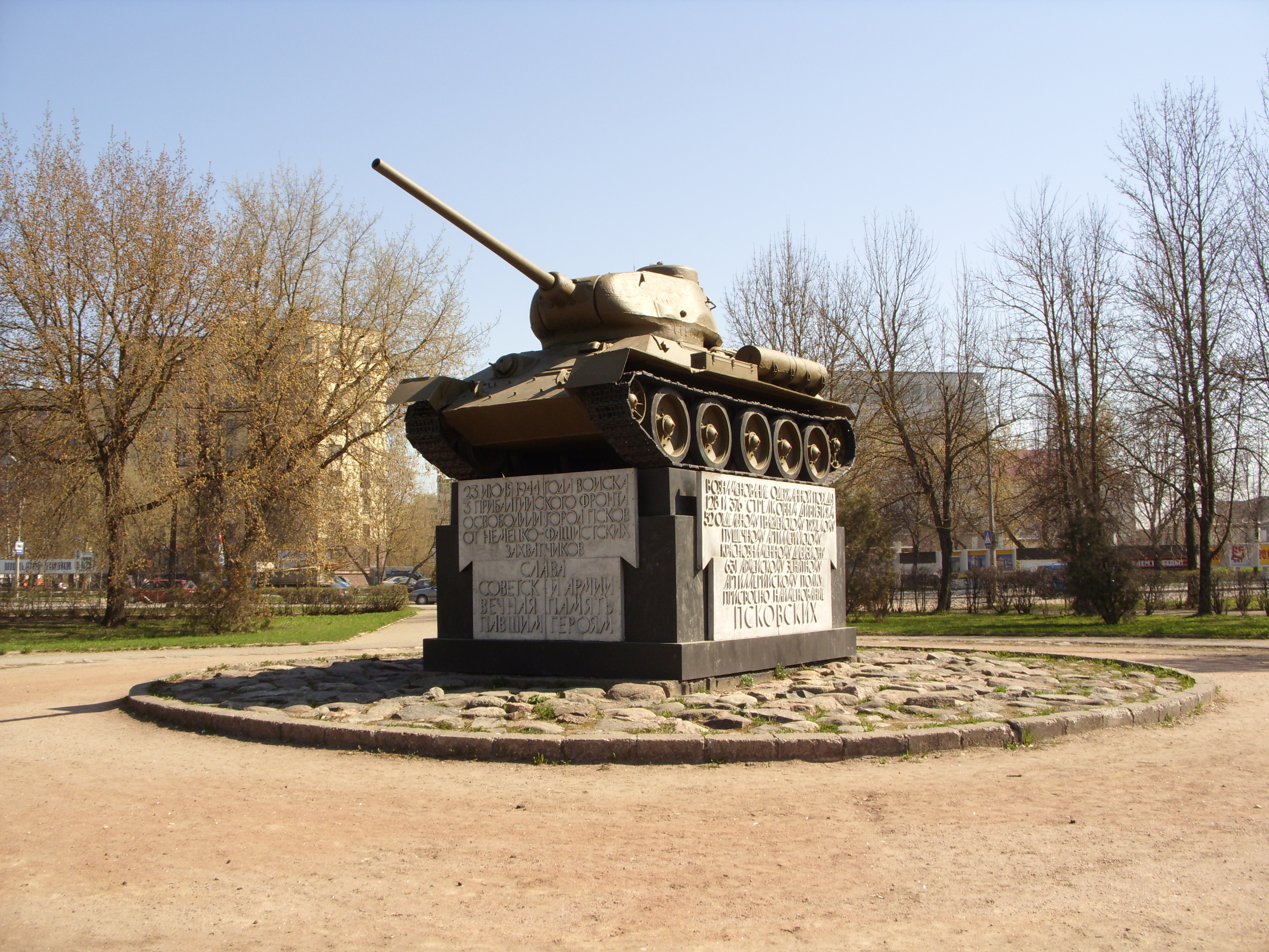 Pskov Tank